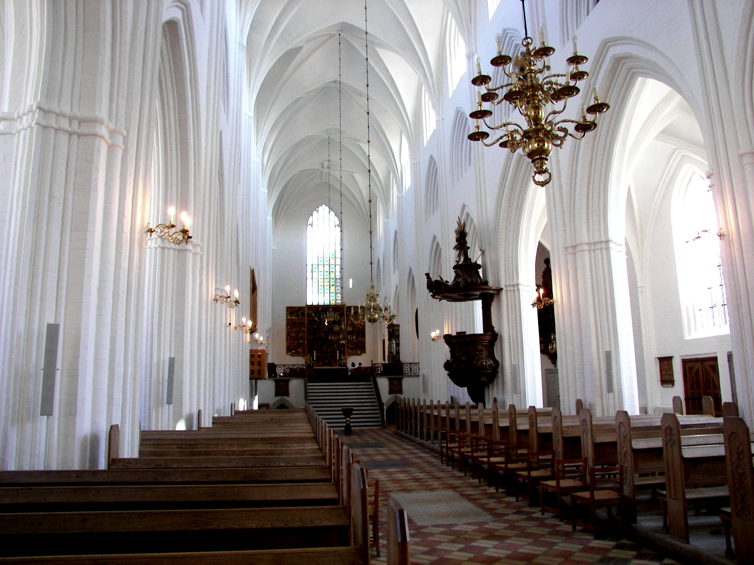 The interior of Odense cathedral, Denmark